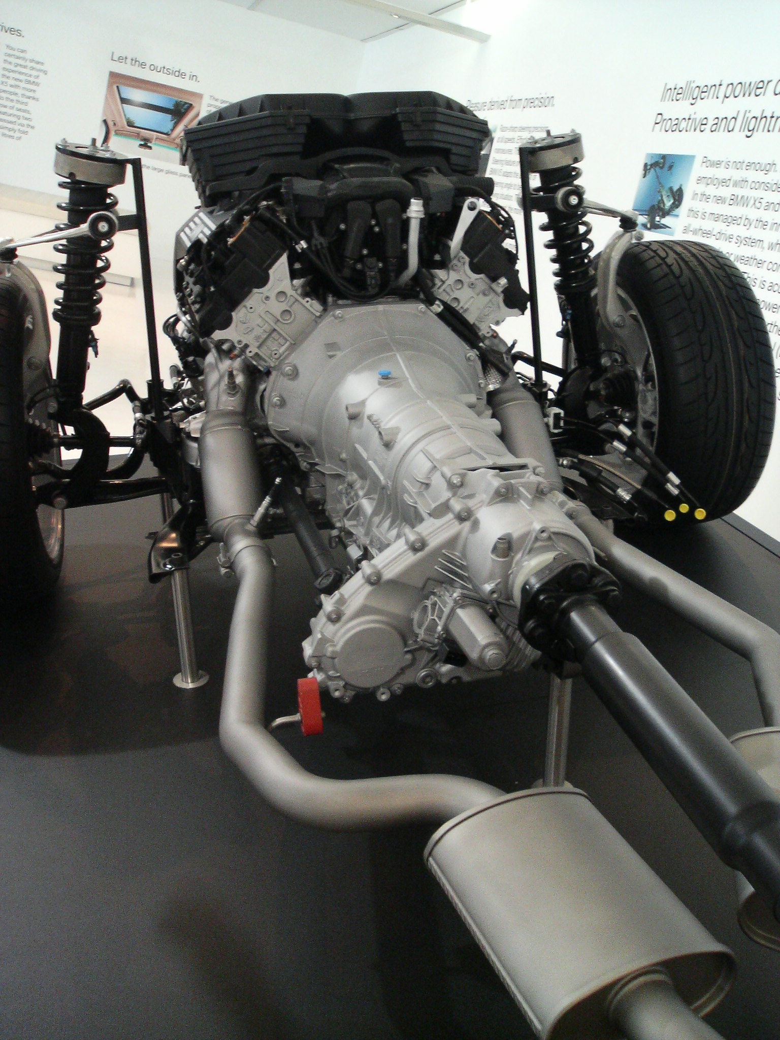 BMW xDrive is BMW's four-wheel drive system that powers the X3, X5 and 2006 and later xd and xi 3 Series and 5 Series models. Instead of a 60-40 (rear-front) power split (which all millennium four-wheel drive BMW's exhibit ? 325xi, 330xi, early X5) with power being cut to wheels which lost traction through DSC (Dynamic Stability Control), xDrive allows power to be split between the front and rear axles through use of a multiplate clutch located between the gearbox and the Cardian shaft. This setup allows xDrive vehicles to split power in virtually any way it pleases. If the car felt like it was in a threatening situation (note not an unstable one), xDrive would react immediately, often before the driver ever knew of its intervention, to alleviate traction and control of the vehicle. xDrive is also closely knit with DSC. In the case that wheelspin still occurs while xDrive is or has been shifting power, DSC can brake independent wheels to regain traction. xDrive also helps in cornering. When the vehicle senses that it was about to understeer or oversteer the vehicle can independently cut traction to either of the front wheels or rear wheels to help regain stability and keep the driver on the road. xDrive was one of the first technologies[citation needed]used to intervene before the driver was aware that the car was becoming or would become unstable. Its intervention is transparent to the driver.